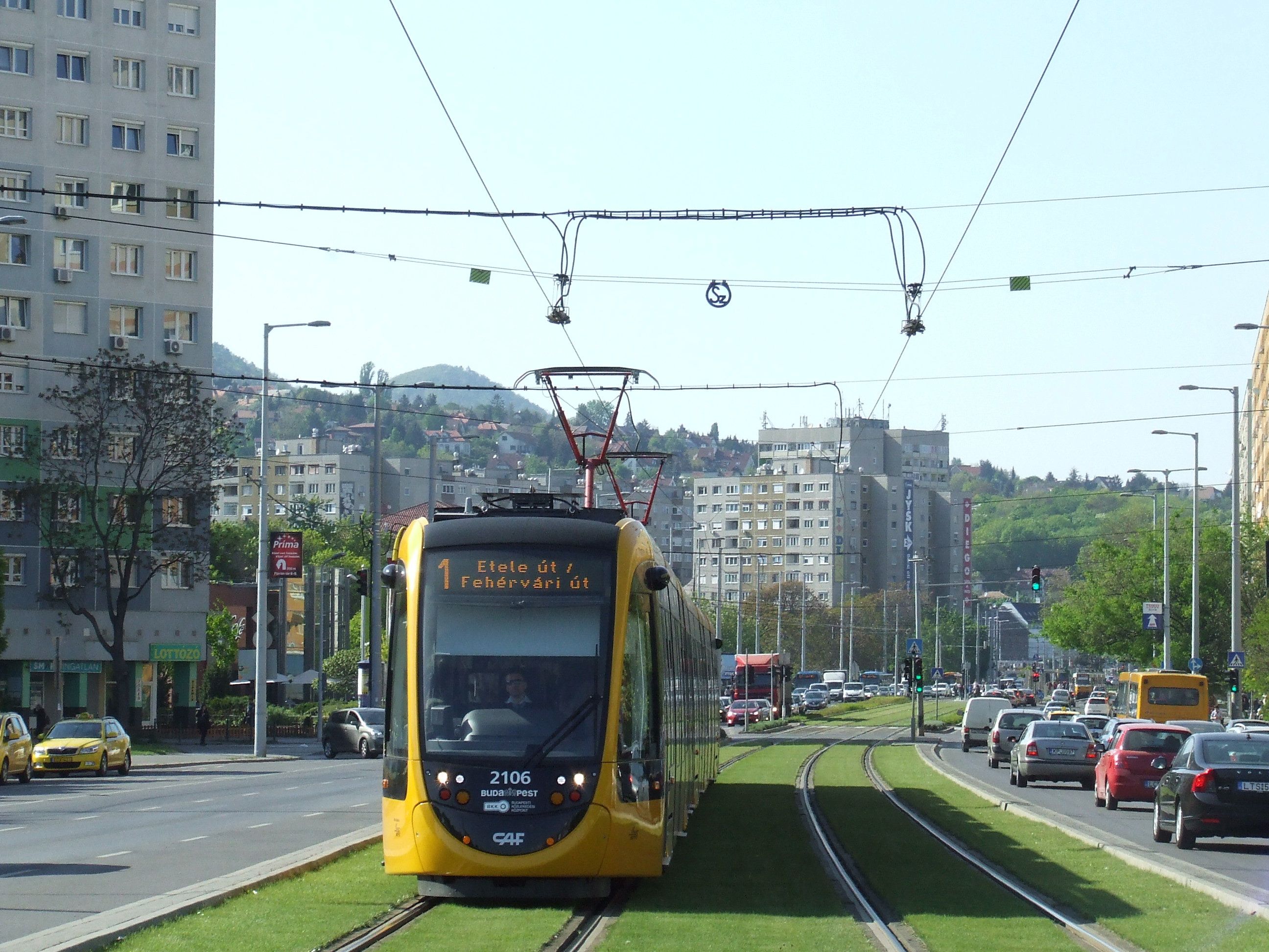 Budapest, CAF Urbos 3, grass-covered tram track